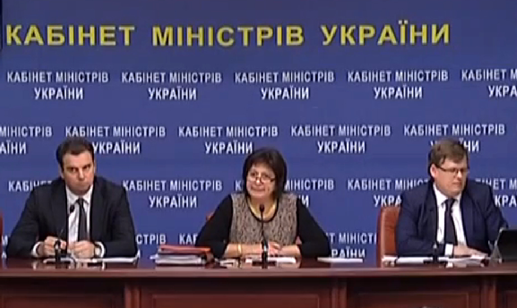 Government Ministers of Ukraine, 13 February 2015.